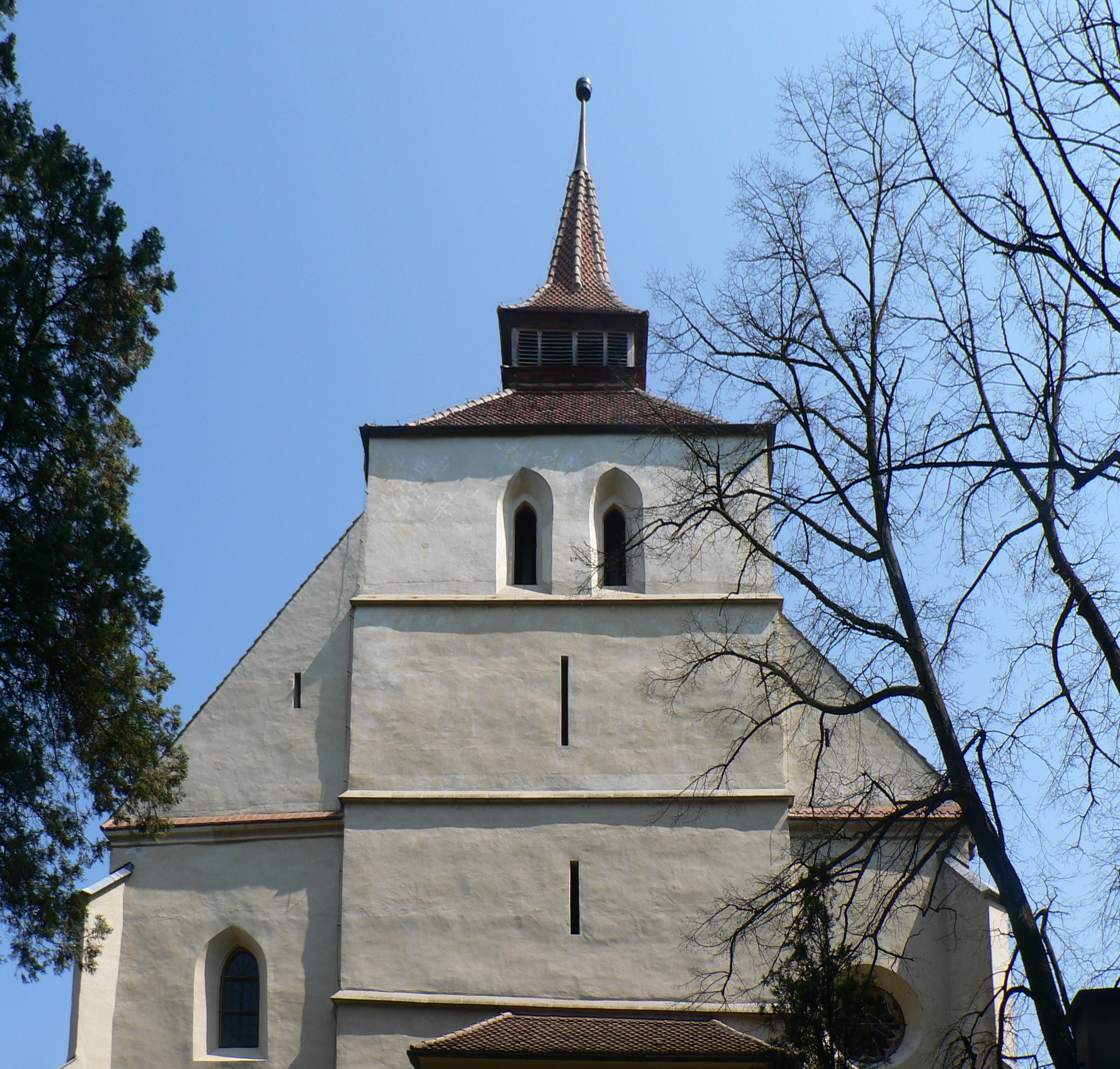 Biserica din Deal in Sighişoara